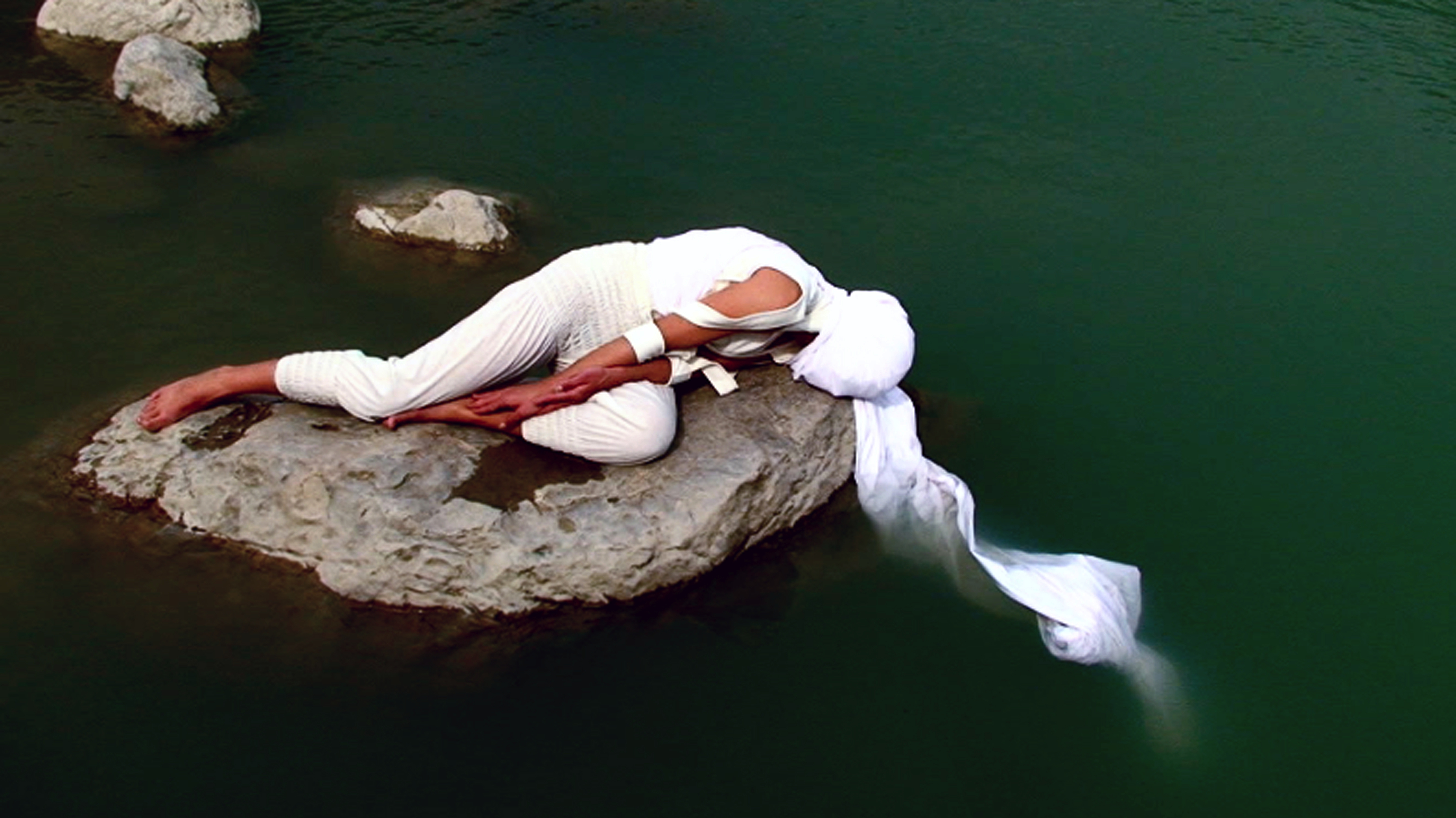 Movie Still of "sin fin - Performances at the Holy Centre", A VestAndPage production, 2010. Verena Stenke